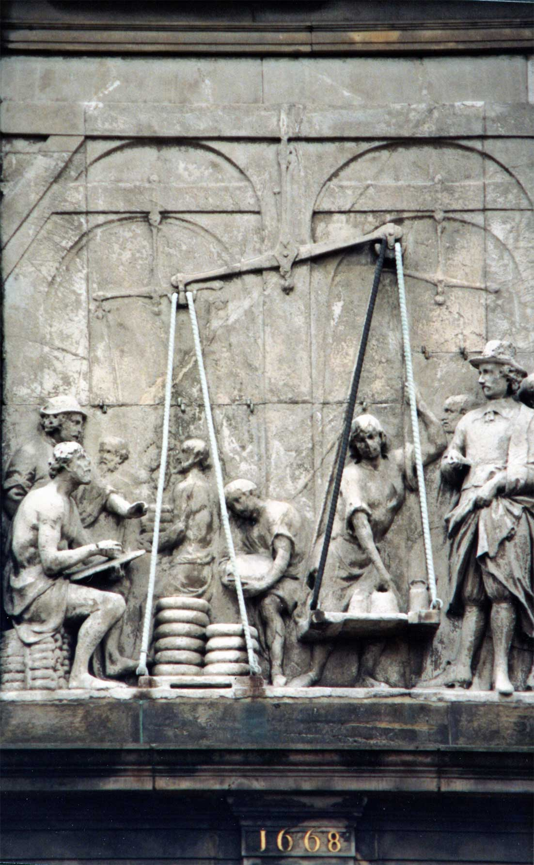 The original relief from the Waag building in Gouda, the Netherlands, by sculptor Bartholomeus Eggers. It was replaced with a copy but can still be seen inside the building